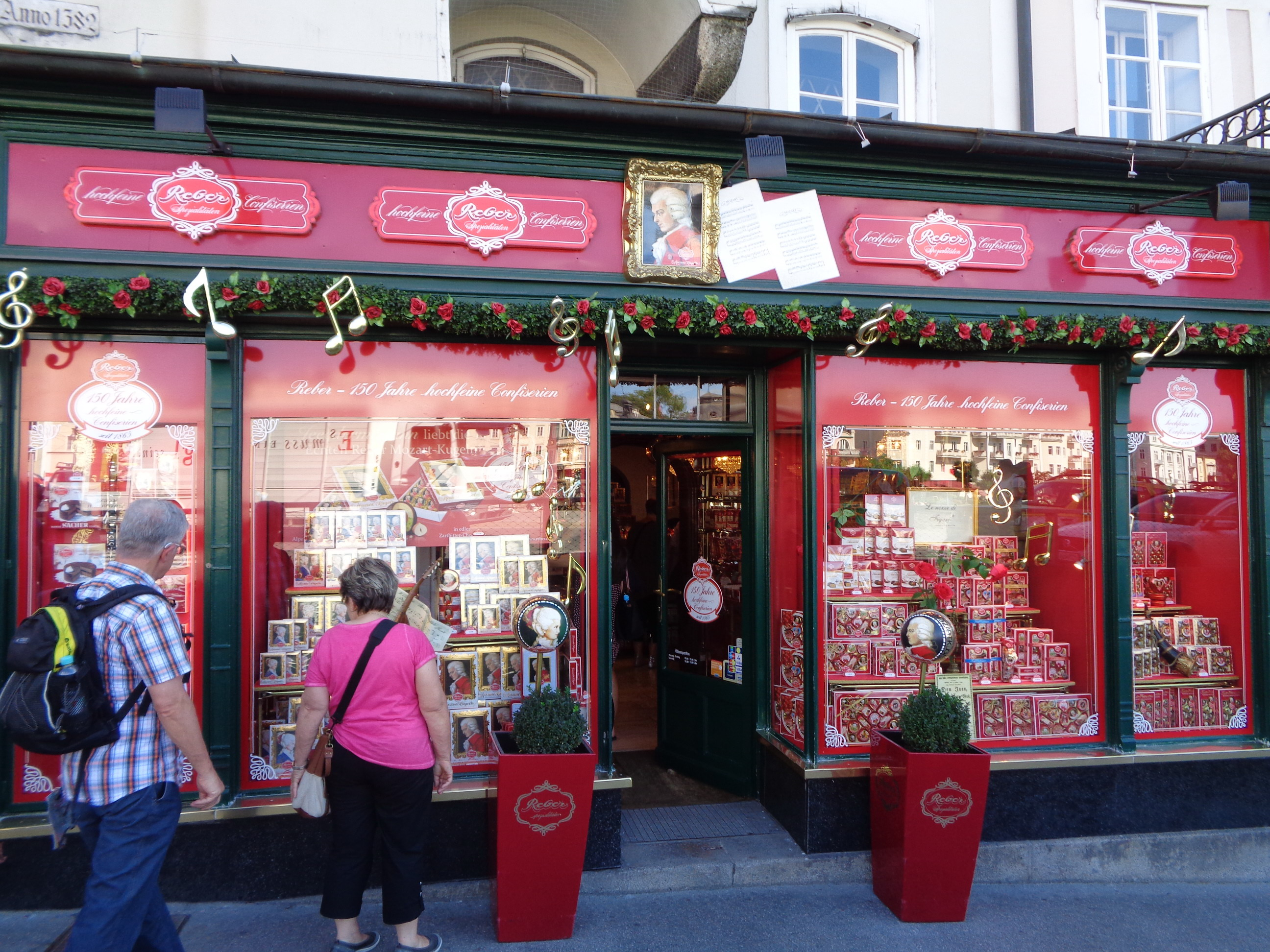 Reber shop with Mozartkugel in Salzburg, Austria